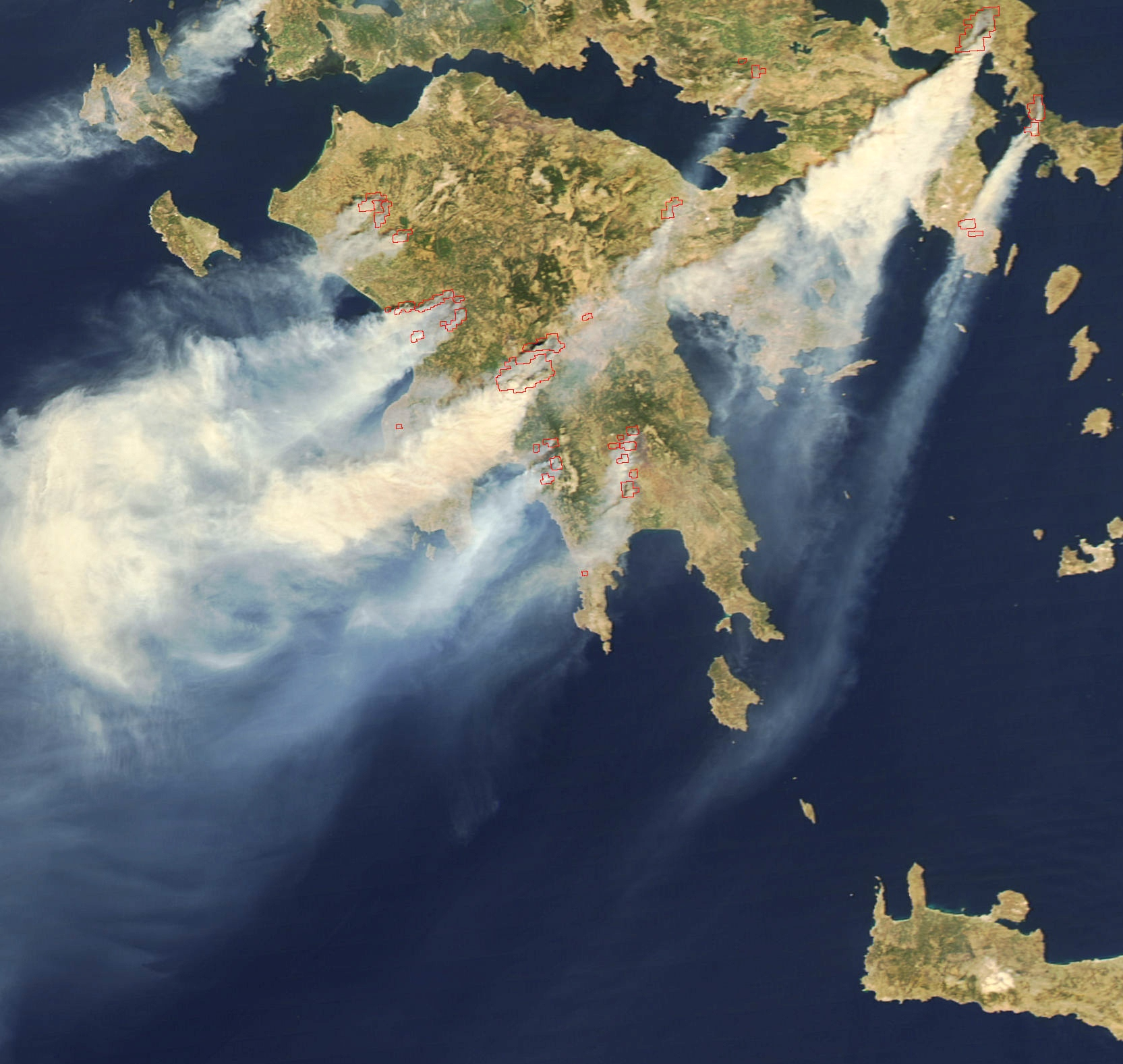 NASA image of the 2007 Greek Fires